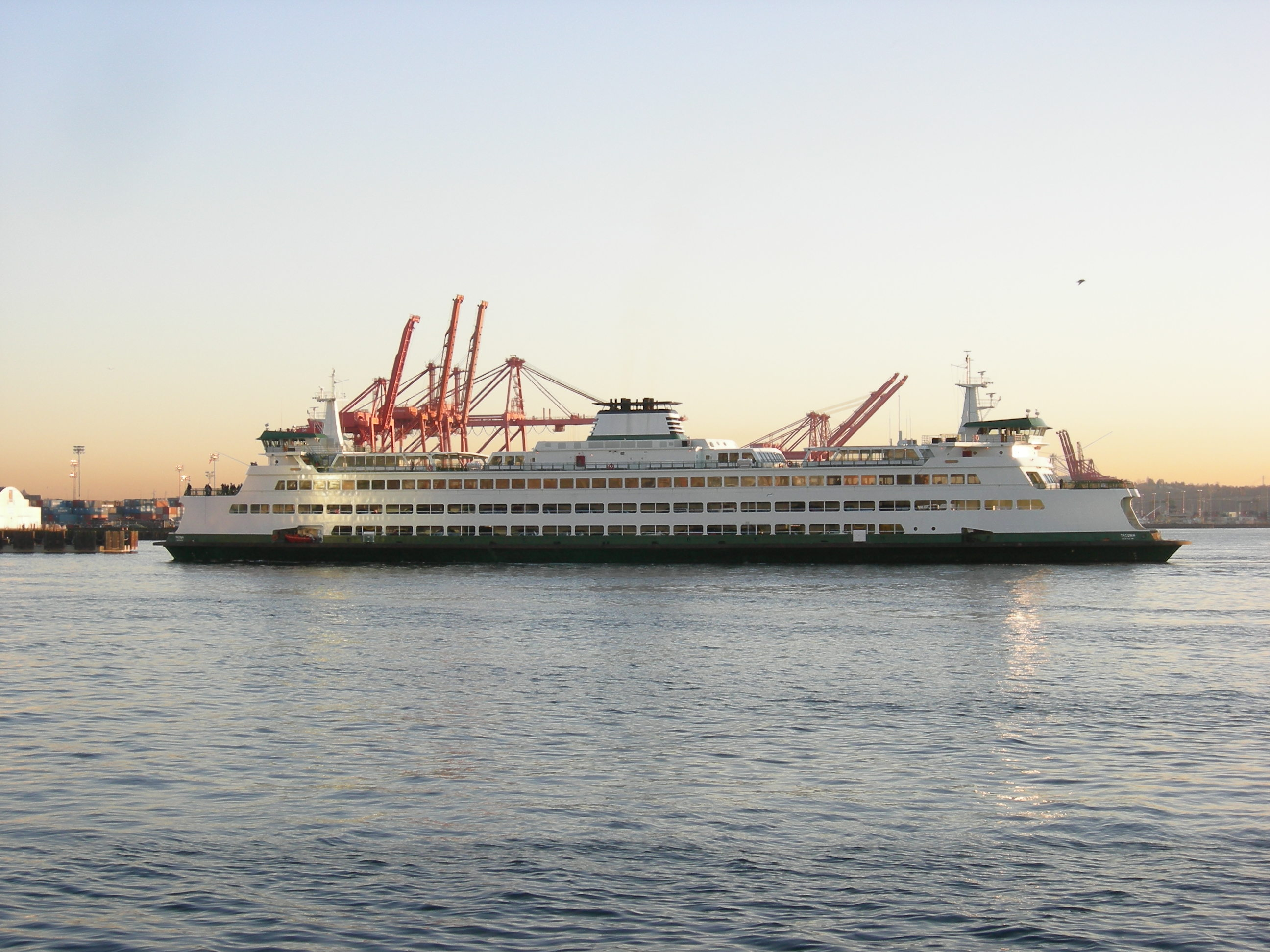 Washington State Ferry on Elliott Bay, approaching downtown Seattle, Washington. Cranes of Harbor Island in the background.